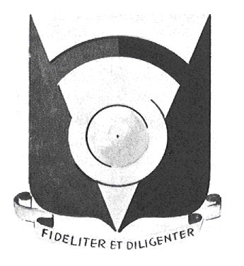 Emblem of the USAAF 1st Photographic Group